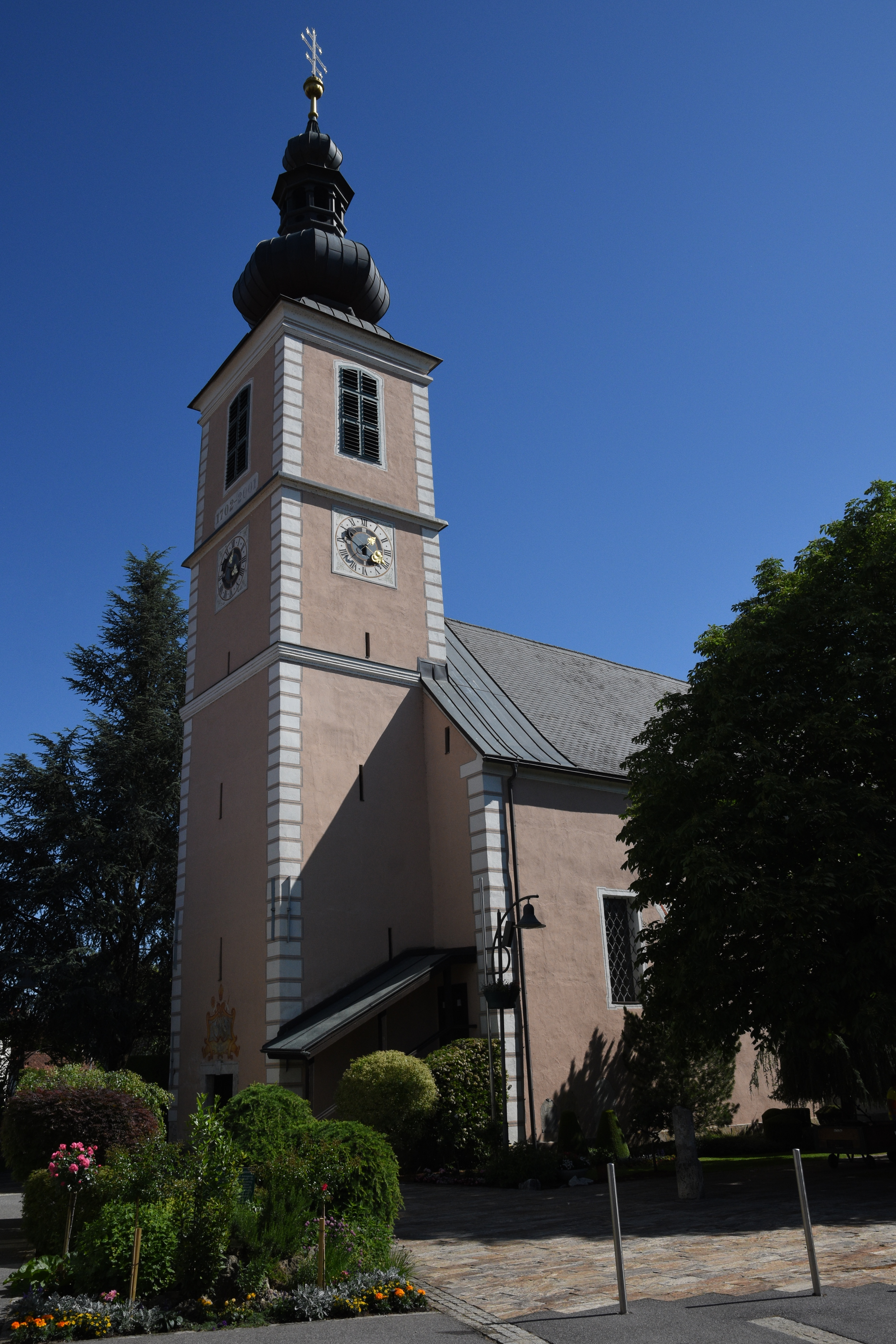 Church Pfarrkirche Mooskirchen